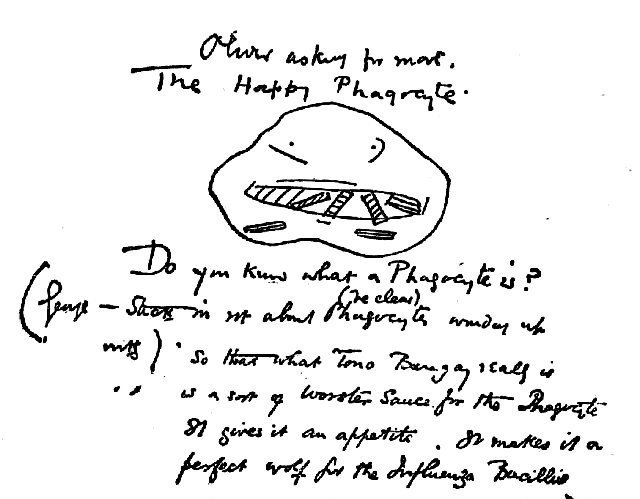 A drawing by H. G. Wells from his novel, Tono-Bungay, published in 1908.